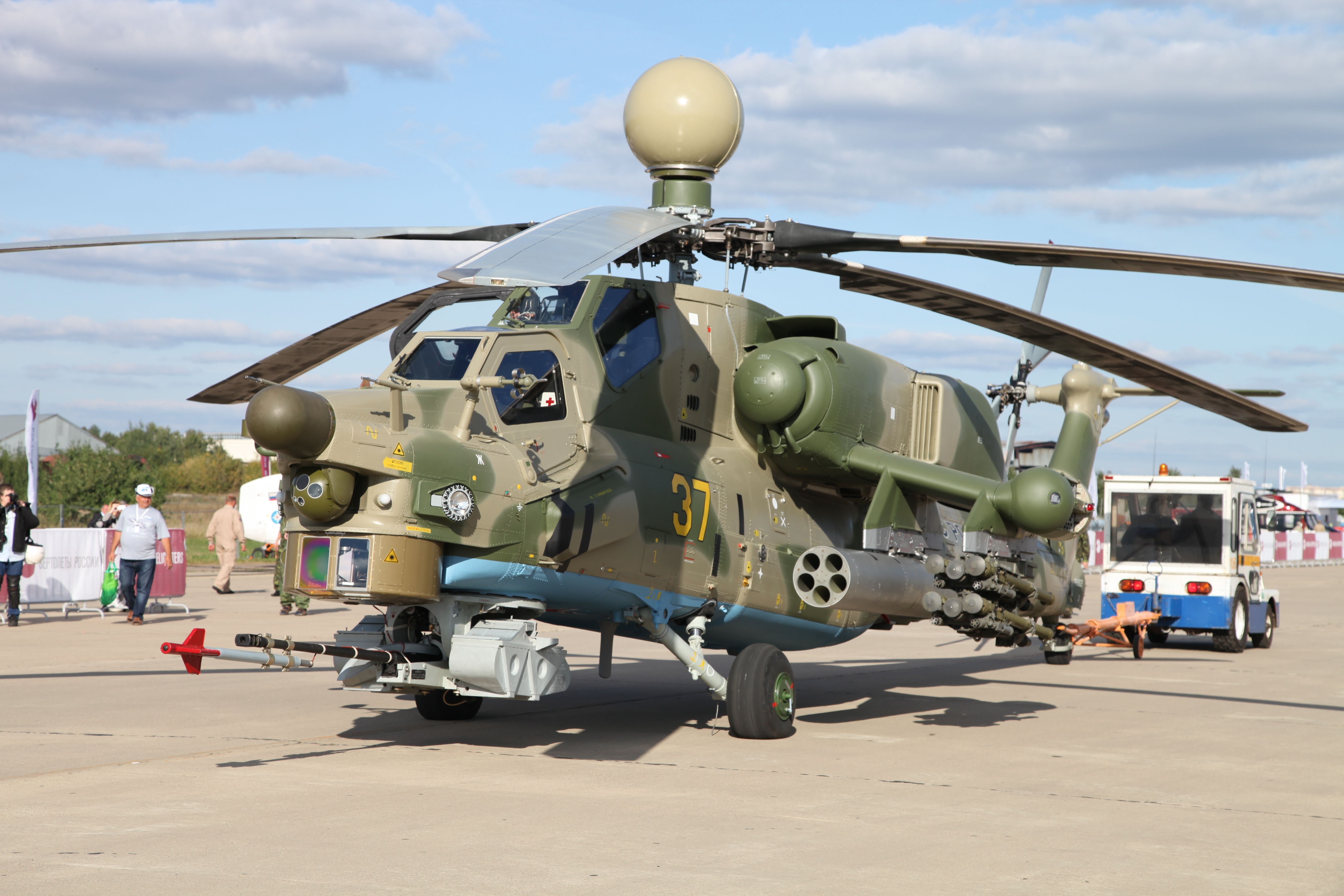 Mi-28N